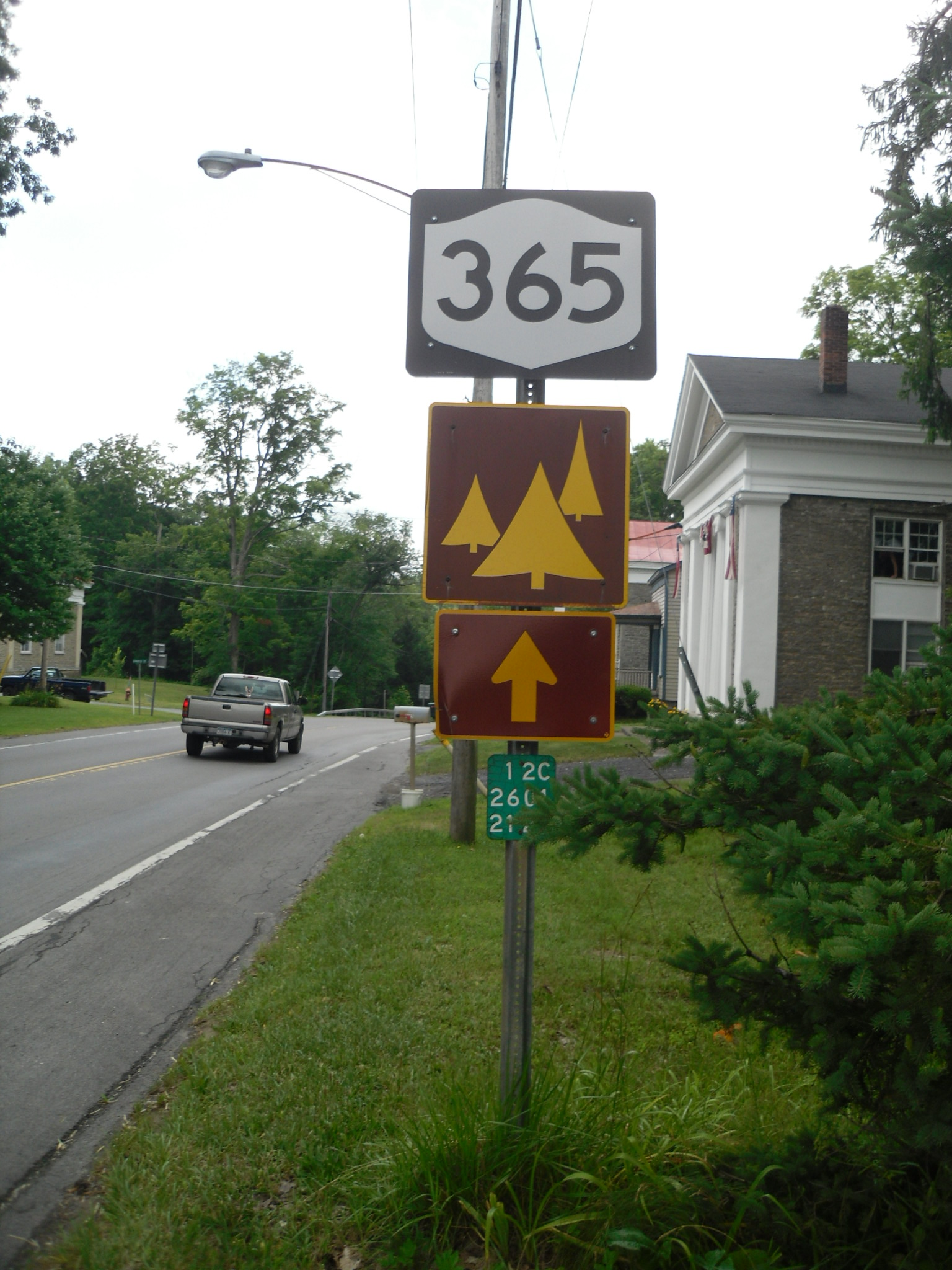 A reference marker denoting the former New York State Route 12C on Route 365 in Oneida County, New York.